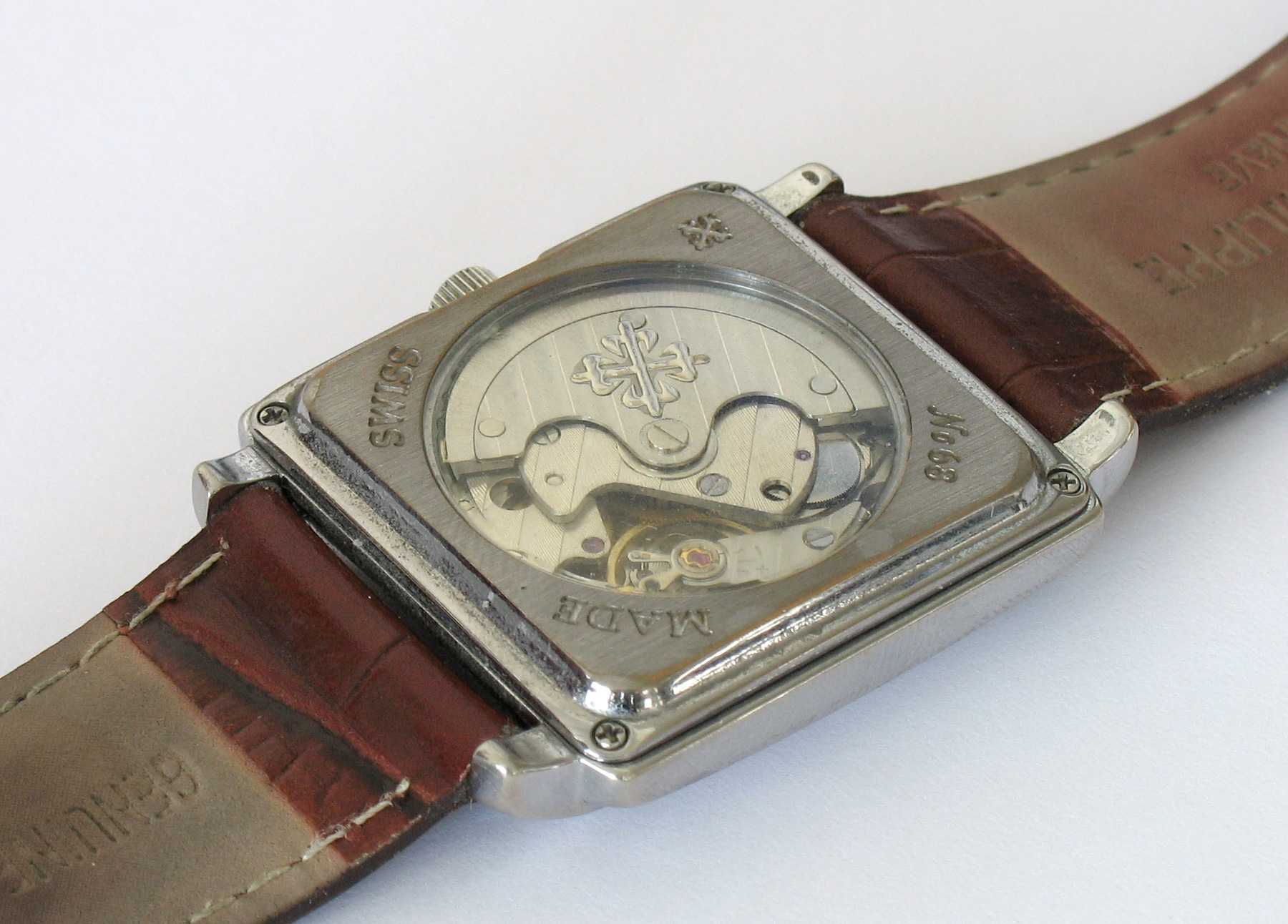 Patek Philippe automatic watch